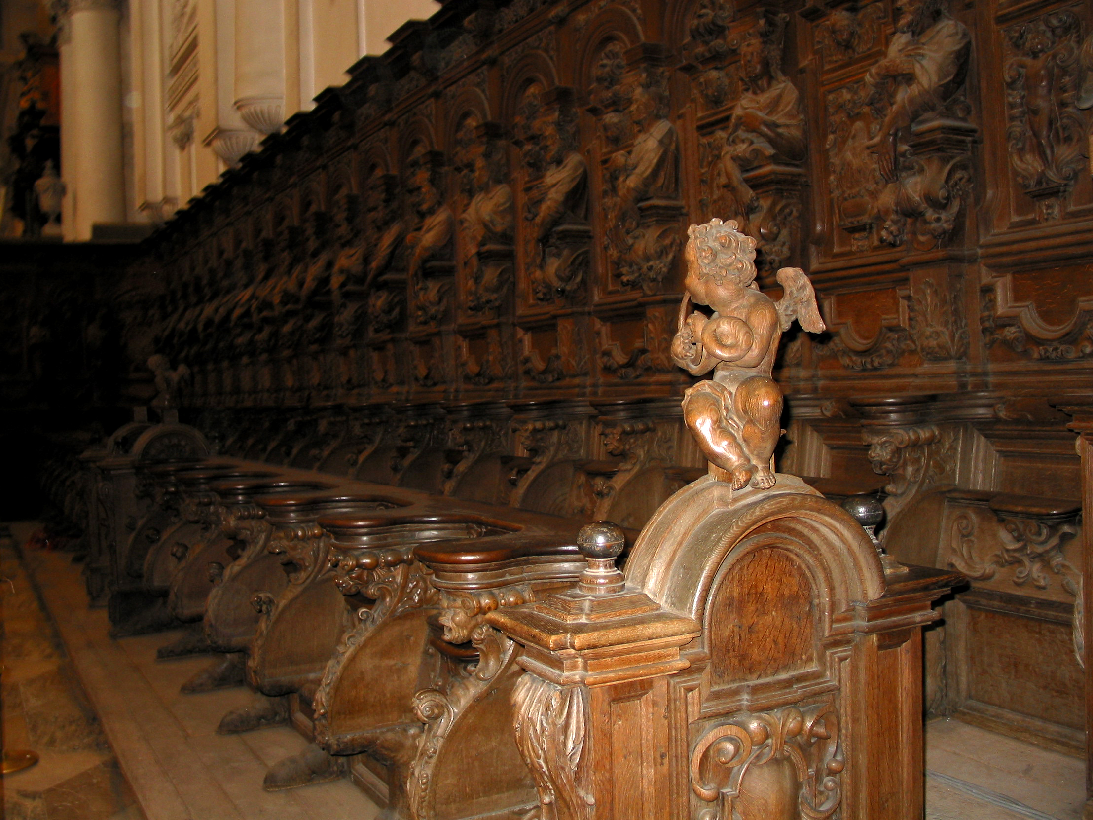 Interior of the Abbaye de Floreffe — in Floreffe, Belgium. Example of Belgian Baroque wood carving.